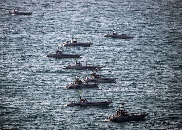 Velayat 94 Military exercise that hold in February 2016 in the range of Strait of Hormuz and northern Indian Ocean